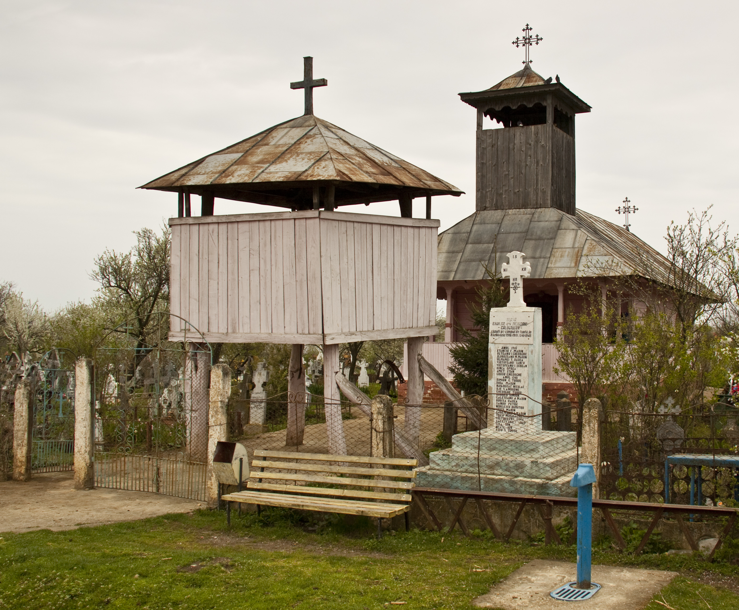 Merişani, Teleorman county, Romania: the wooden church.